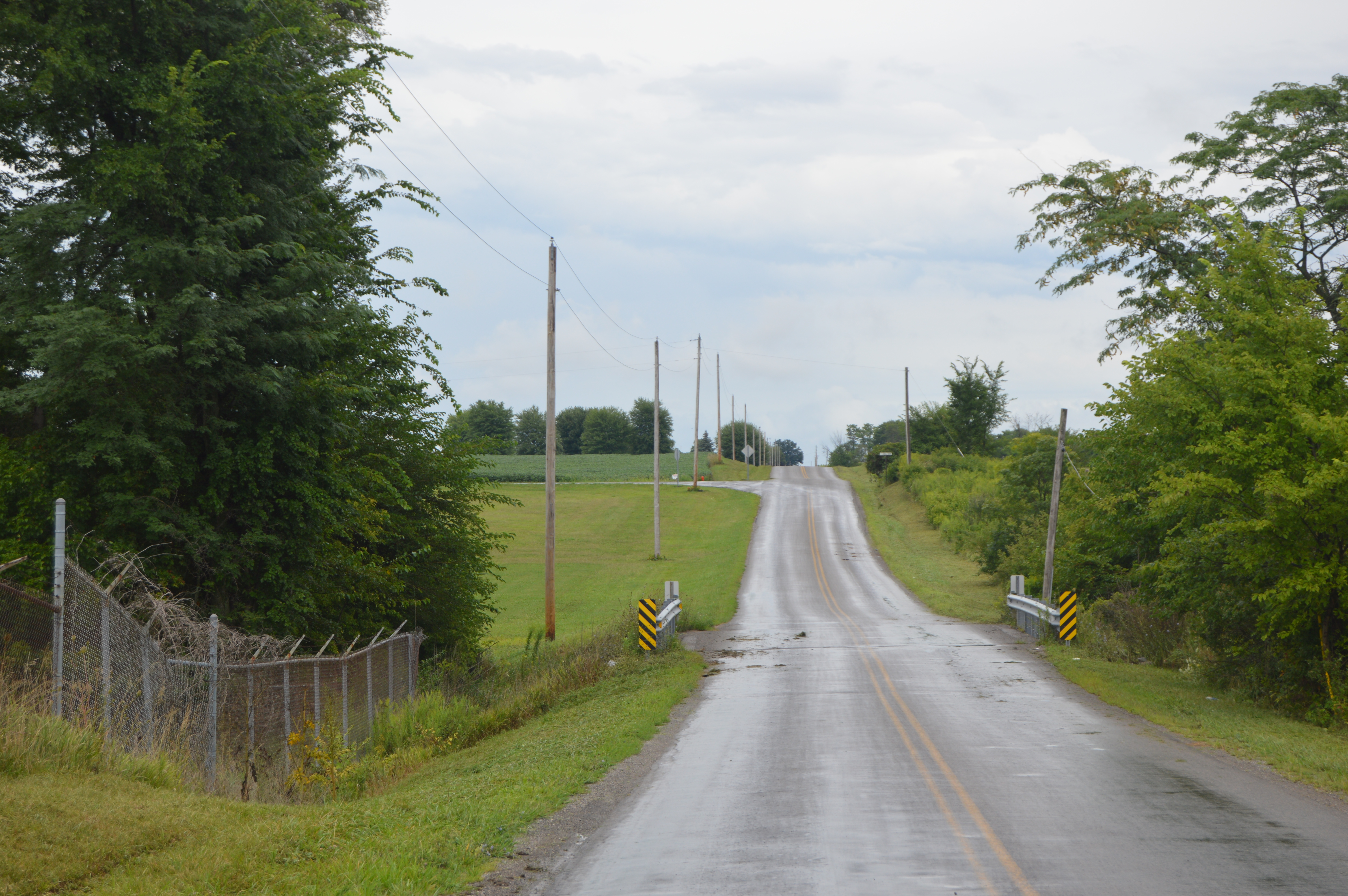 Looking east along County Road 200 just east of State Route 292 in northwestern Hale Township, Hardin County, Ohio, United States. Now empty, this location was once known as "Grassy Point".